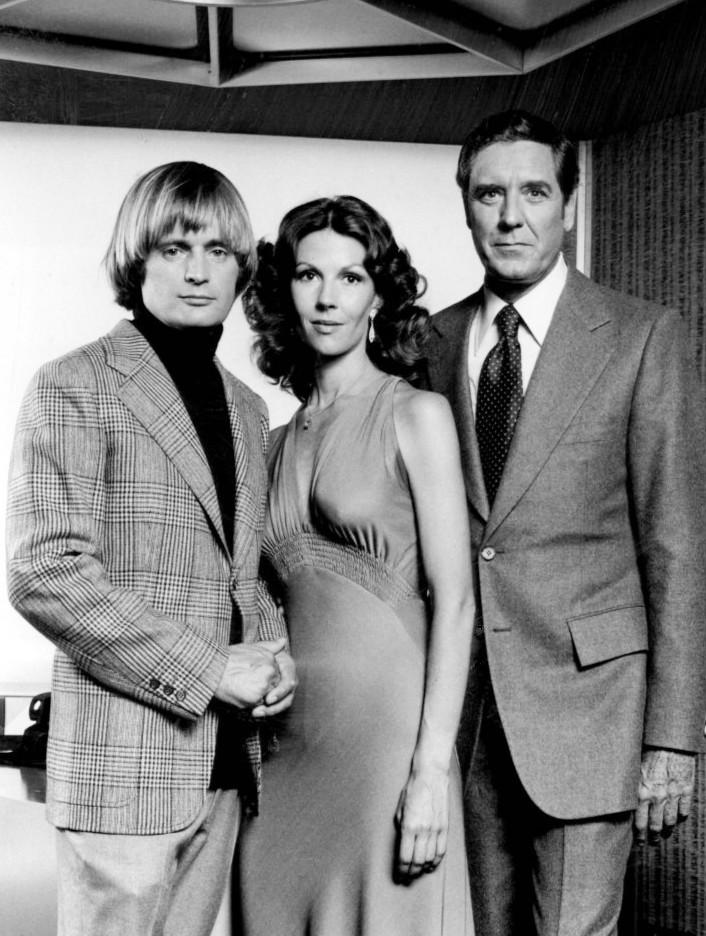 Photo of David McCallum, Melinda Fee and Craig Stevens from the television program The Invisible Man. McCallum played Daniel Westin, Fee, his wife, Kate, and Stevens, Walter Carlson, his boss.